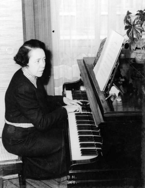 French composer Jeanne Leleu (1898-1947).